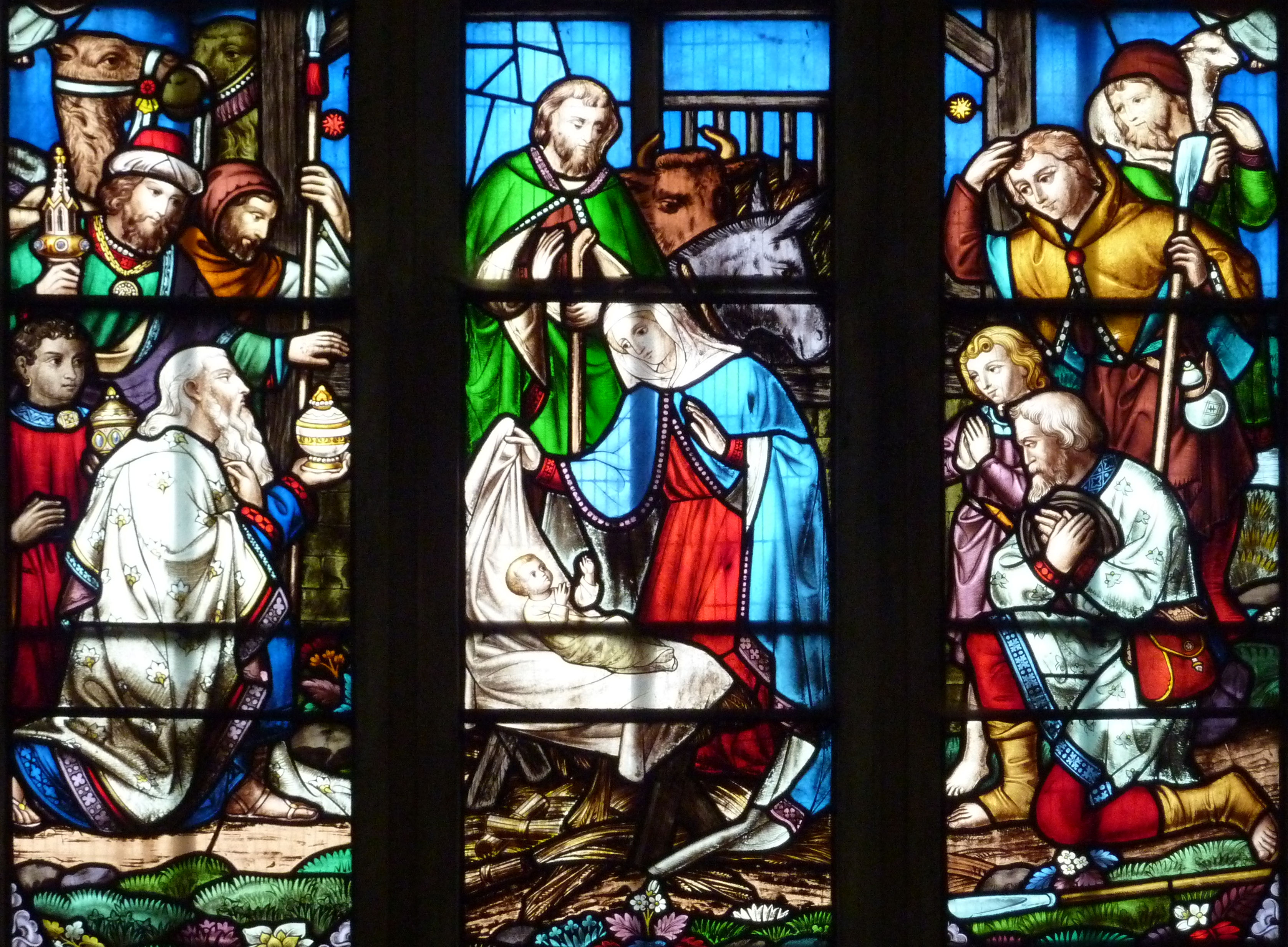 Detail of one of the stained glass windows at St John the Baptist, Pilton